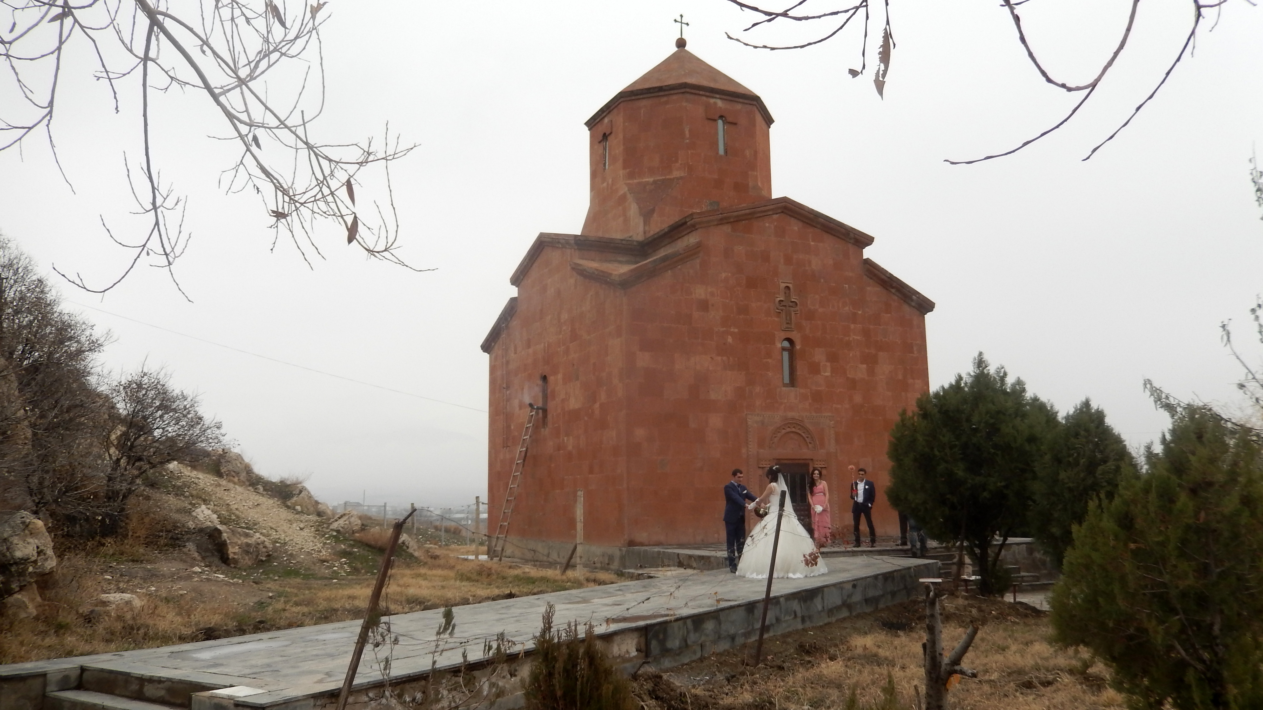 St Astvatsatsin Church, Vedi